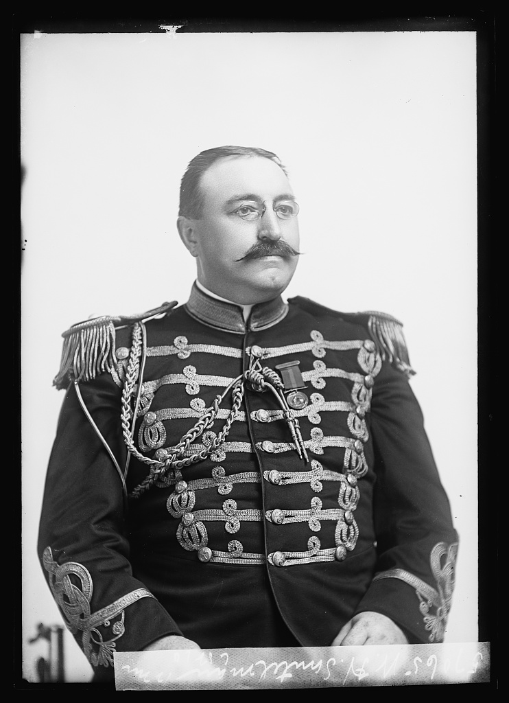 William Henry Santelmann by C. M. Bell Studio